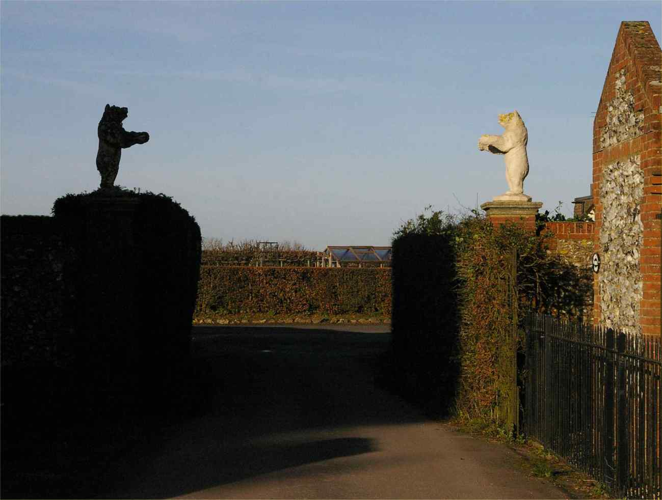 The Berens Family crest included a bear, and when Major Berens acquired the Bentworth Hall estate, carvings of bears were put up in various places. These are at the entrance to the Bentworth Hall drive, between the two lodge houses.